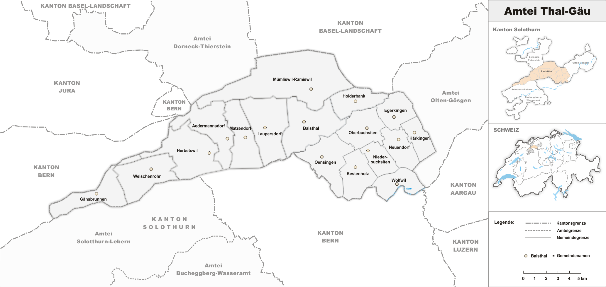 Municipality in the Amtei of Thal-Gäu